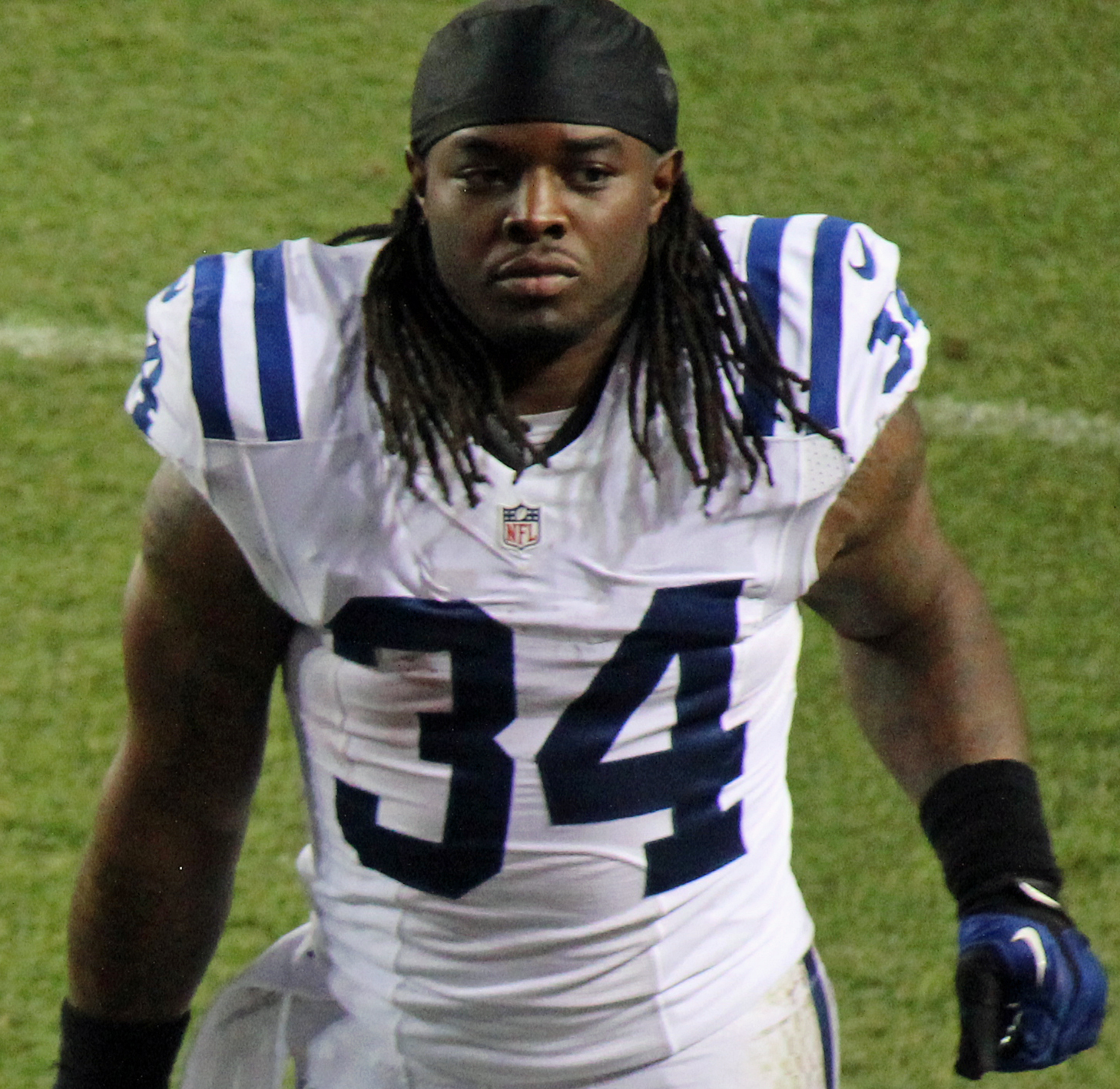 Trent Richardson, a player on the National Football League.